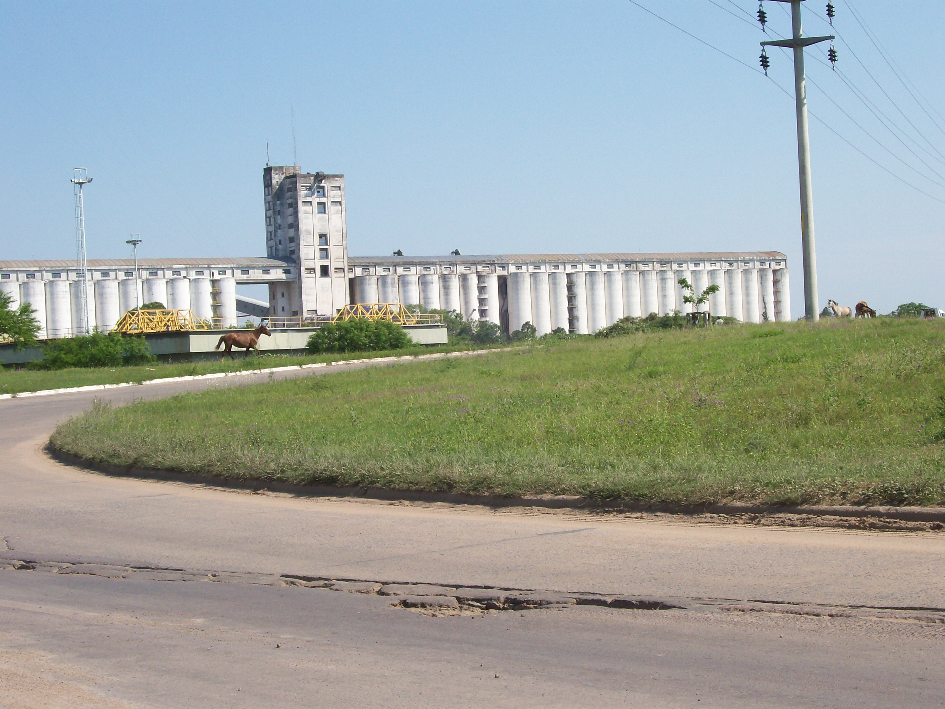 Silo near Barranqueras port over Paraná River, Chaco Province, Argentina.